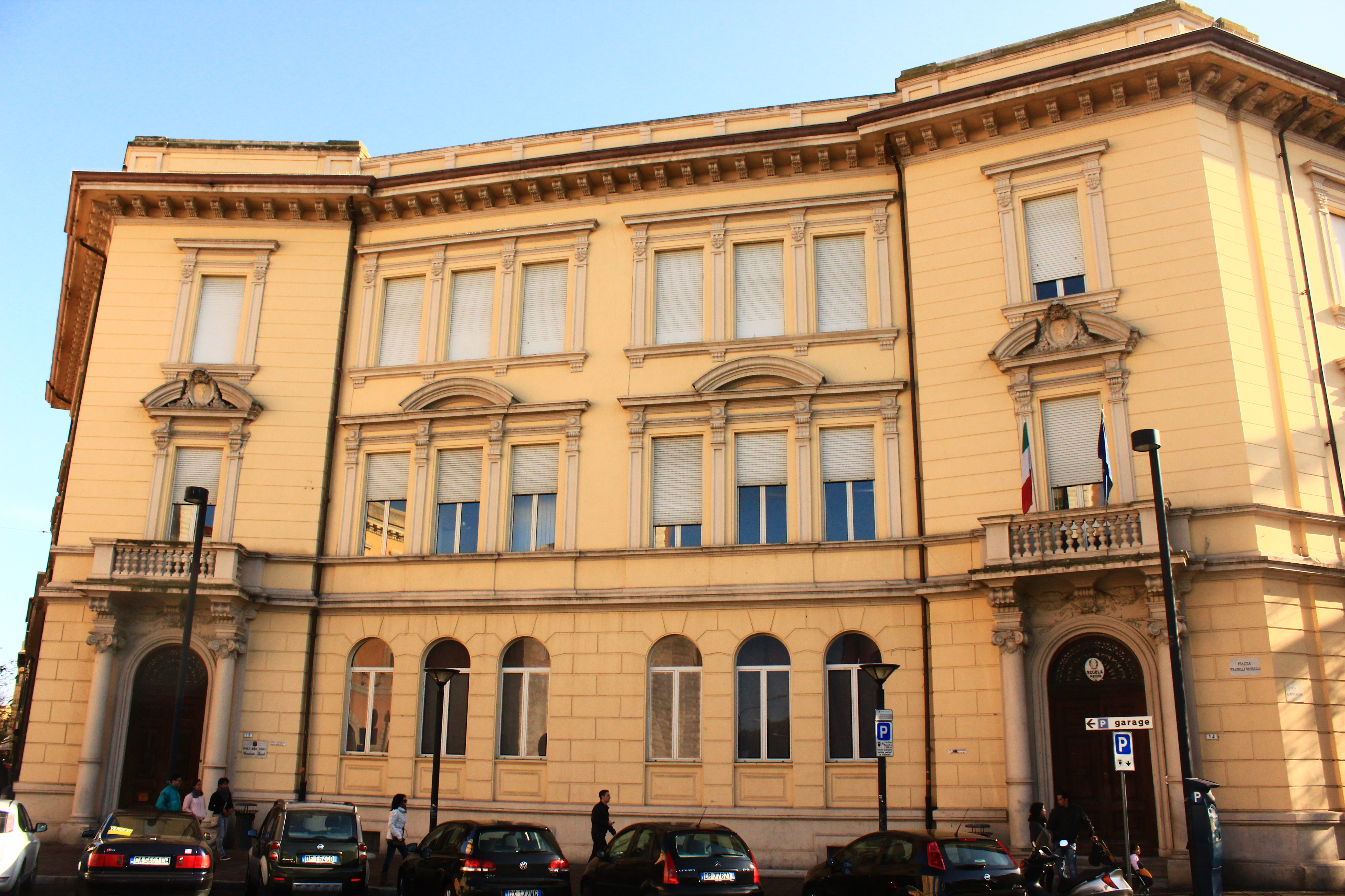 Scuola media Pascoli in Grosseto, Italy